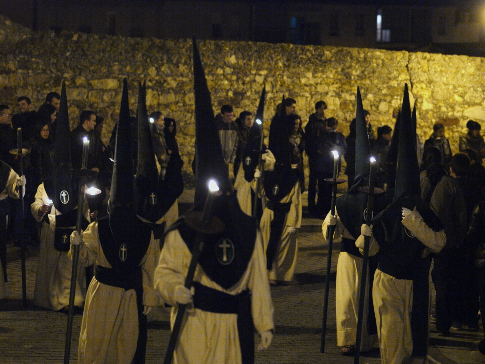 Procession of the religious brotherhood Hermandad Penitencial de las Siete Palabras, Zamora, Spain, Holy Week 2012